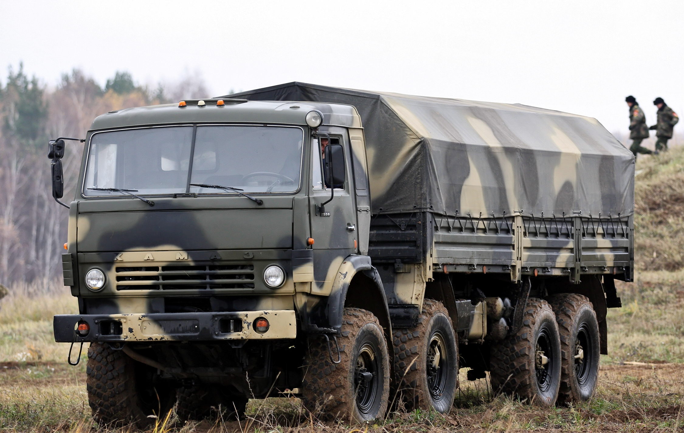 KamAZ-6350 truck.